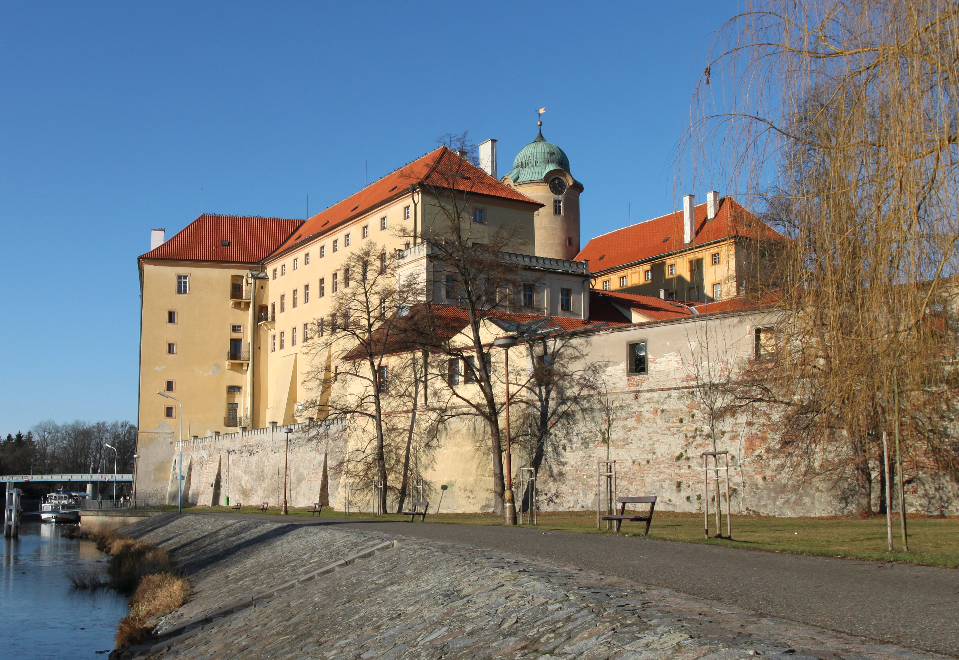 Castle in the city of Poděbrady, Czech Republic